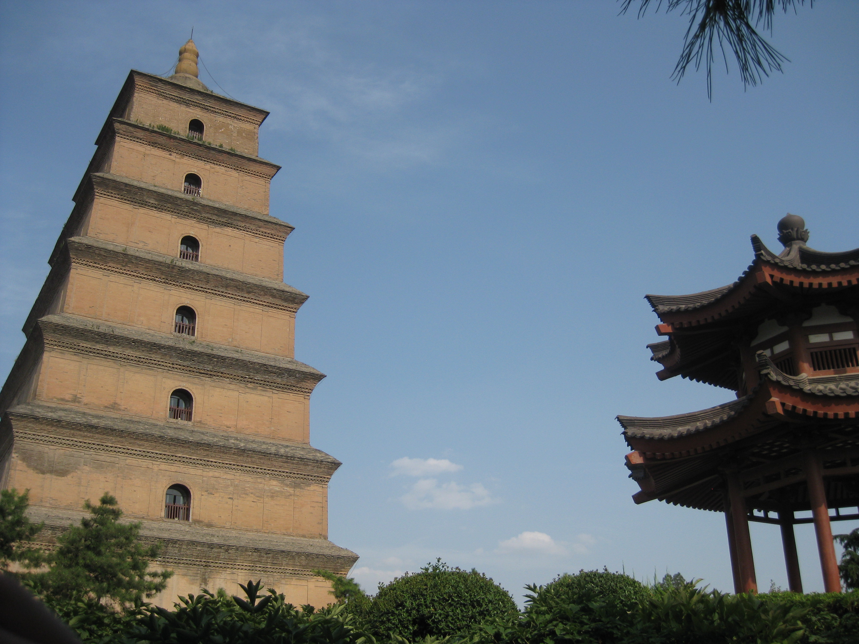 Located within Xi'an, connected to the Journey to the West.